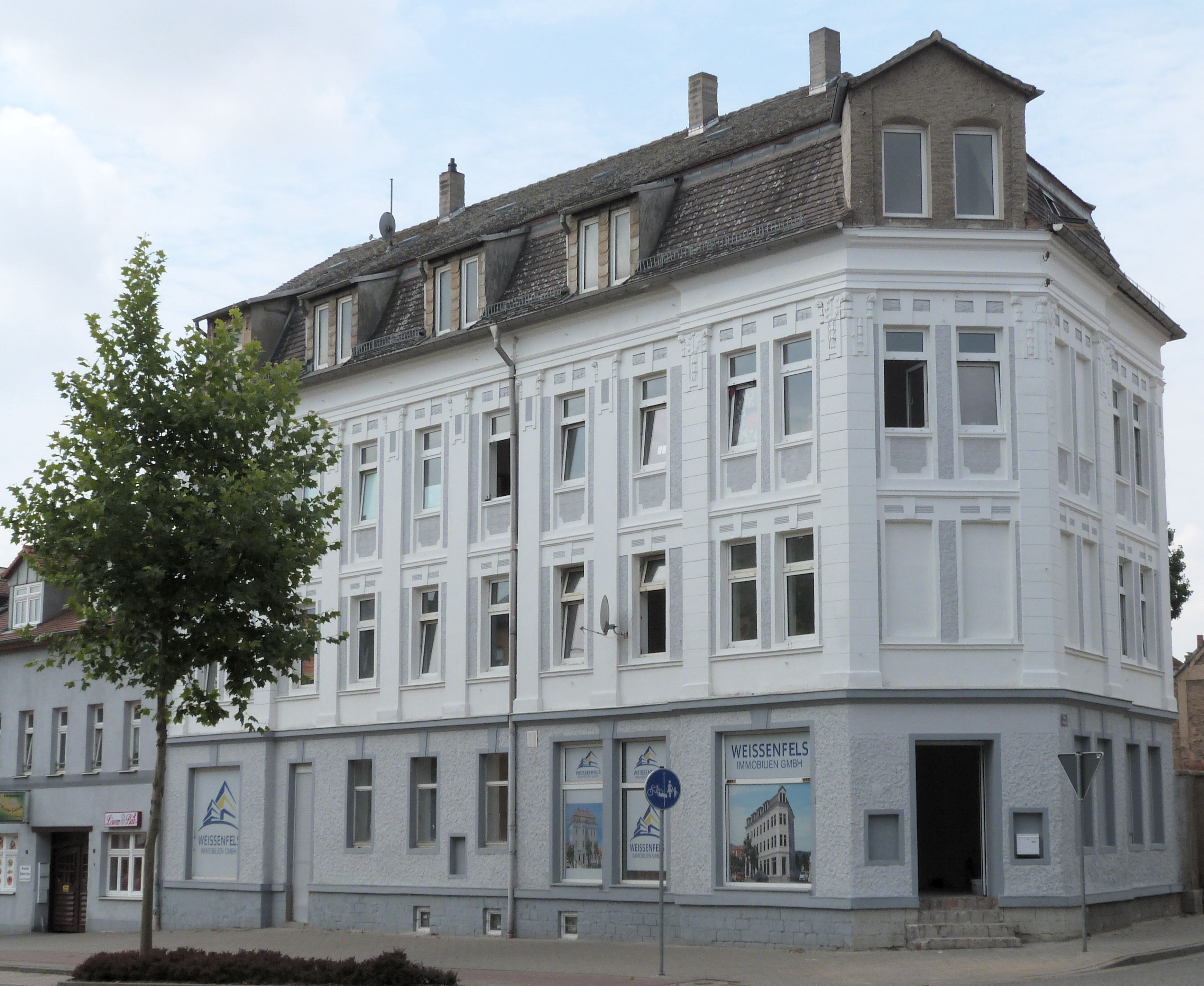 House No. 18, Merseburger Strasse, Weissenfels, Saxony-Anhalt